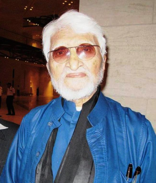 MF Hussain' Photograph